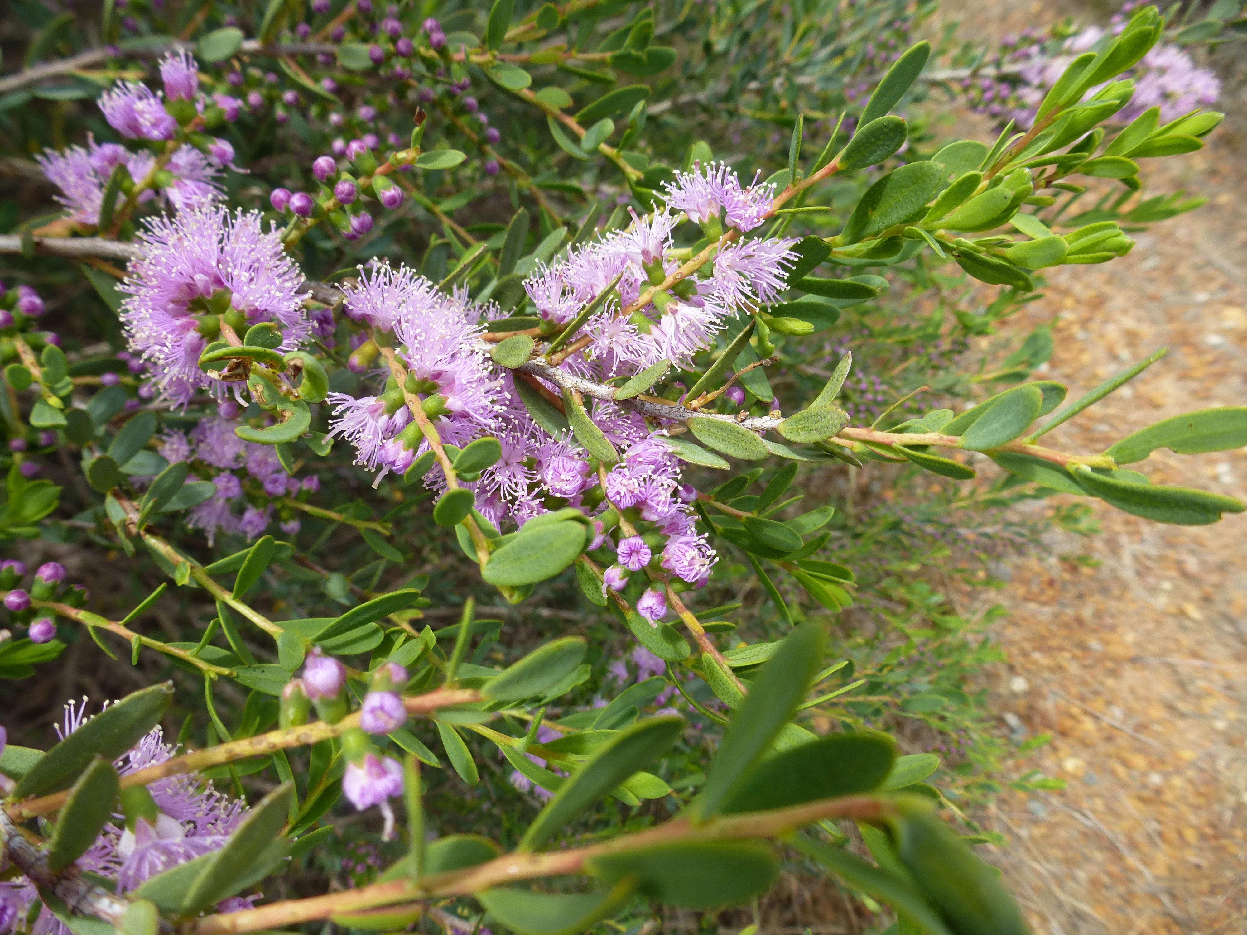 Melaleuca laxiflora growing 13 km N of Corrigin